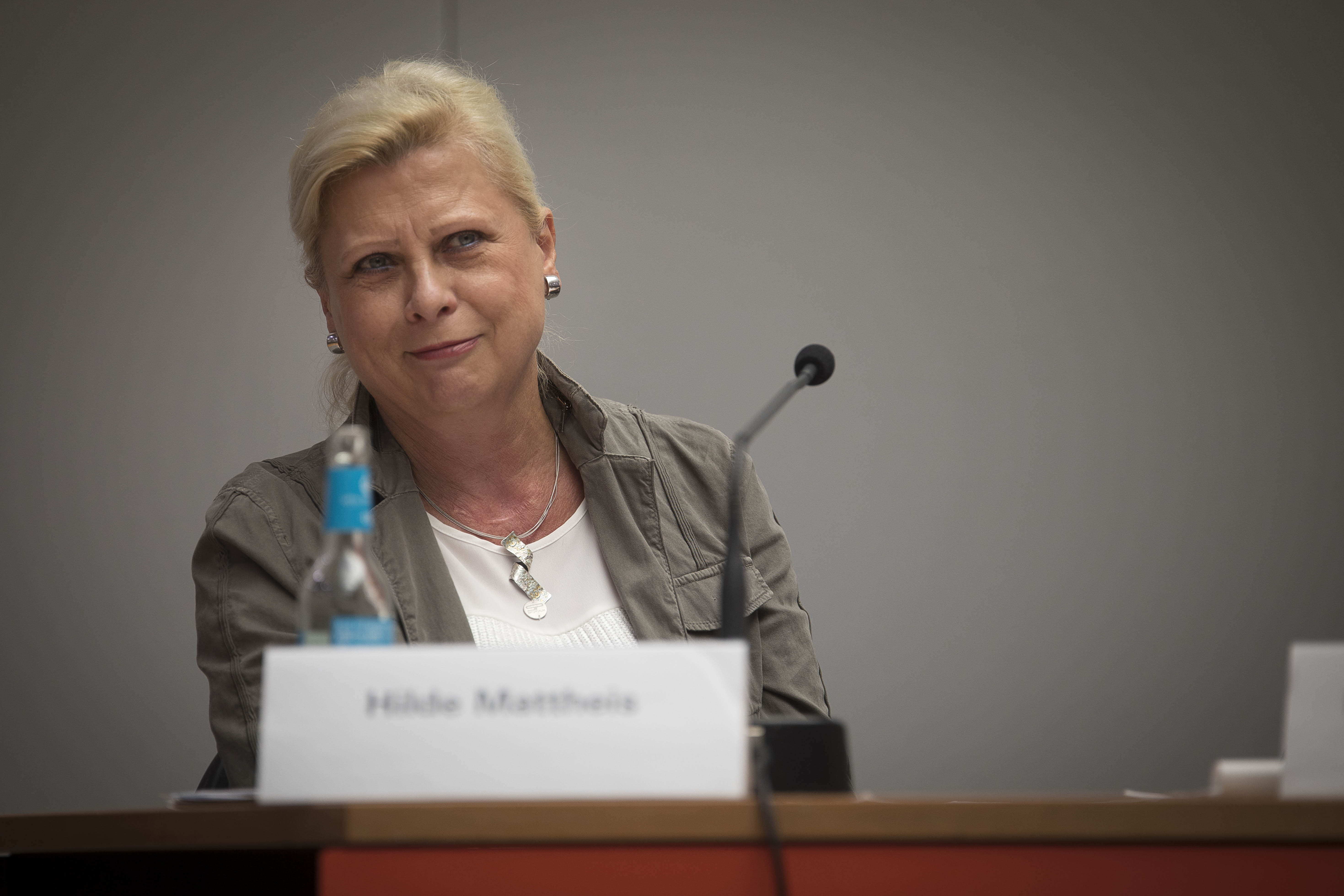 Hilde Mattheis, Member of the Bundestag, at the panel discussion "Arbeit, die zum Leben passt" ("Work that suits life") on September 15, 2018